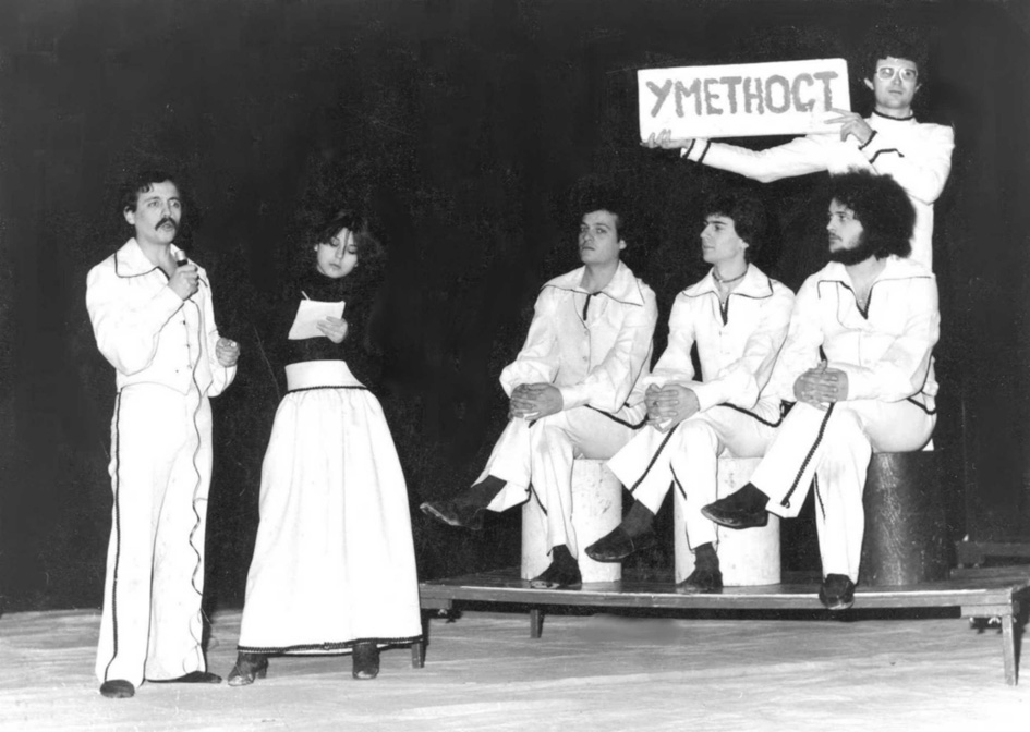 Performance from Jean-Michel Ribes, directed by Macedonian theatre director Bore Angelovski